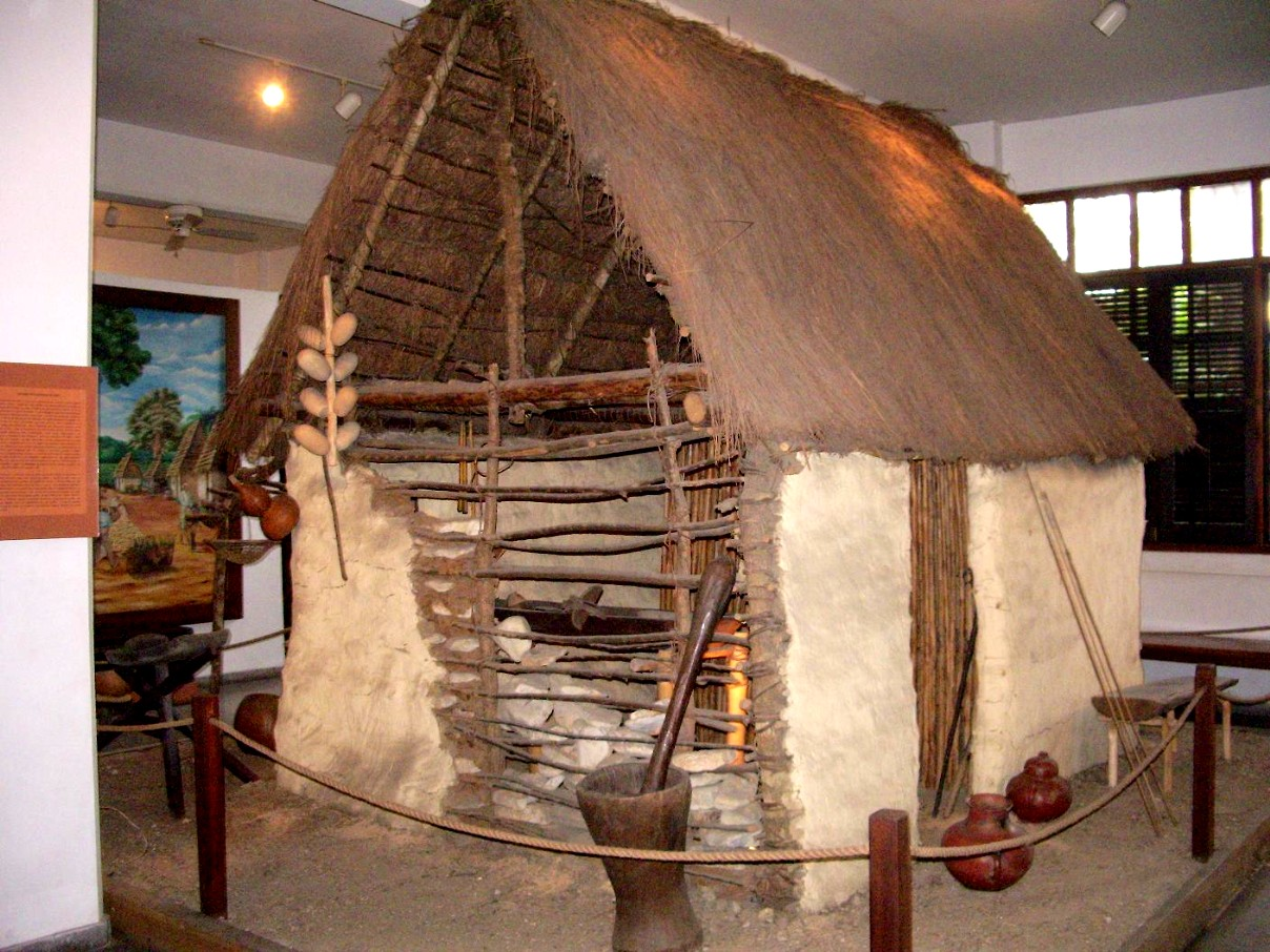 Muestra de casa indígena tomada en el museo de antropología en San Pedro Sula